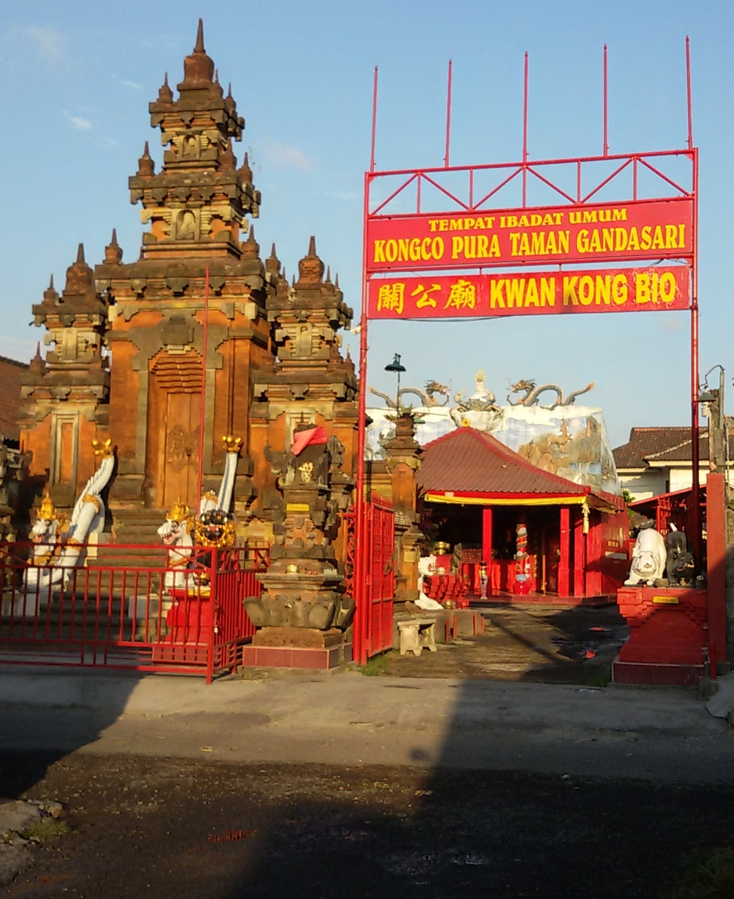 Kongco Pura Taman Gandasari, Denpasar, Indonesia